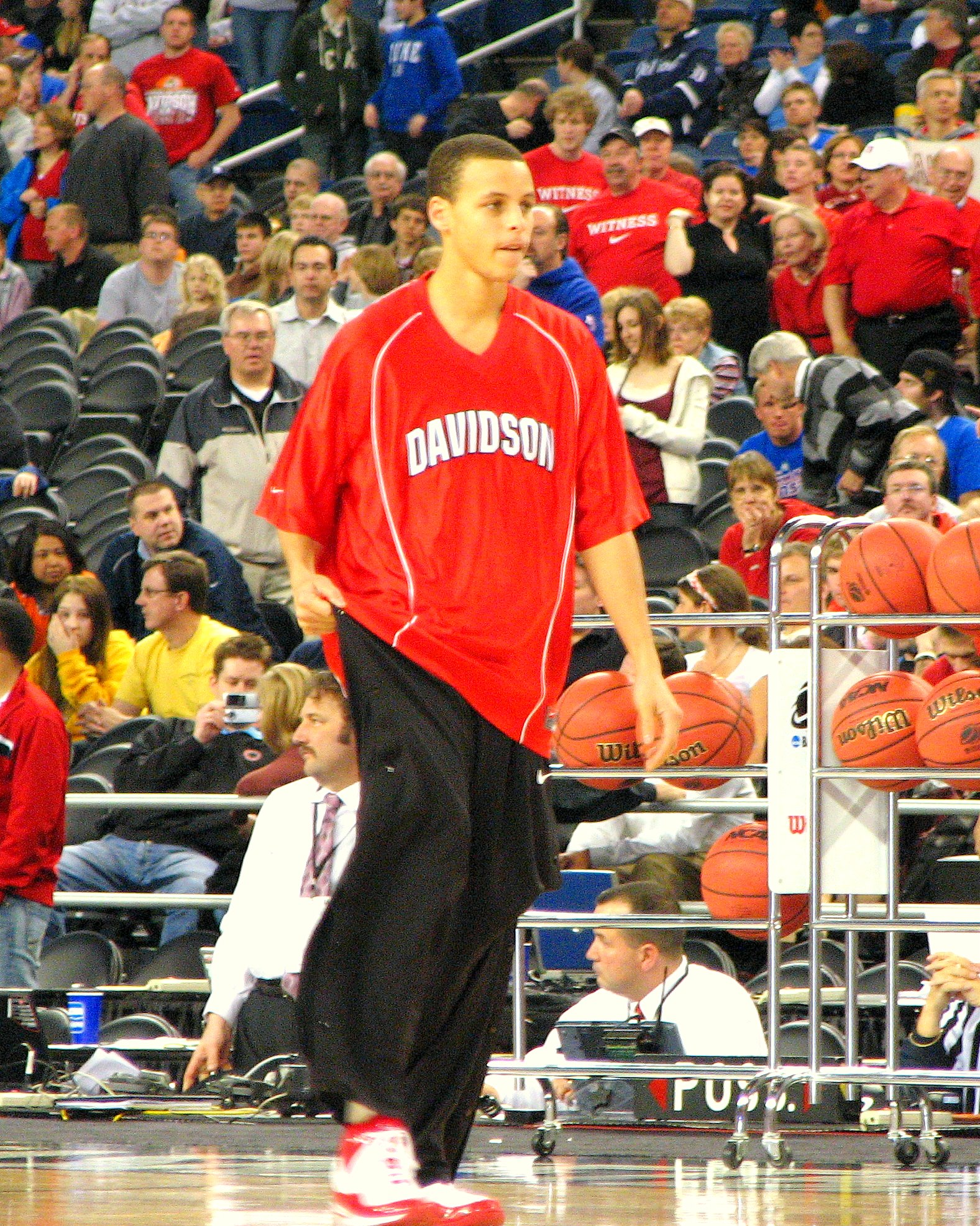 Davidson star Stephen Curry warms up for the Midwest Regional final against Kansas at Ford Field.